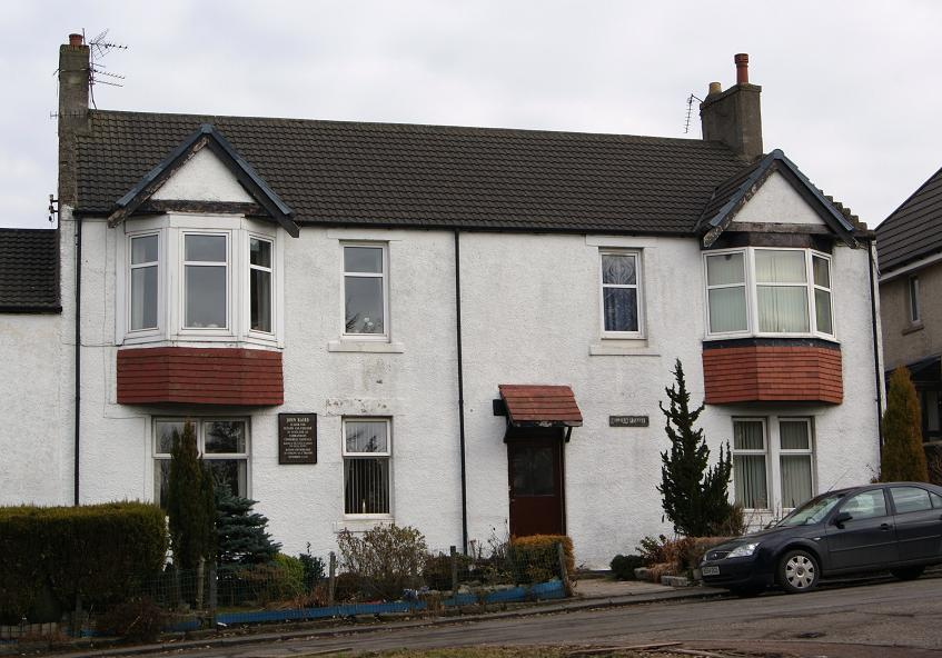 John Baird's House At the end of the 18th century, the government would not listen to the people especially the returning soldiers, so began the industrial revolution. Unemployment was gradually taking hold and the soldiers who had fought a hard war were not prepared to sit back in squalor devoid of livelihood. This resulted in the radical reform movement, which eventually took hold across the country. The government on the other hand saw the protest of these men, as treason. A group of dissatisfied workers marched from Glasgow to the village of Condorrat situated south of Kilsyth and west of Cumbernauld Village. One of those radicals who was determined to stand up and be counted in a fight against a government which had alienated its people, was John Baird. The result was armed conflict. The ringleaders were John Baird and Andrew Hardie. Both these men were tried and executed for treason. Quoted from William Chalmer's website on Condorrat and Castlecary